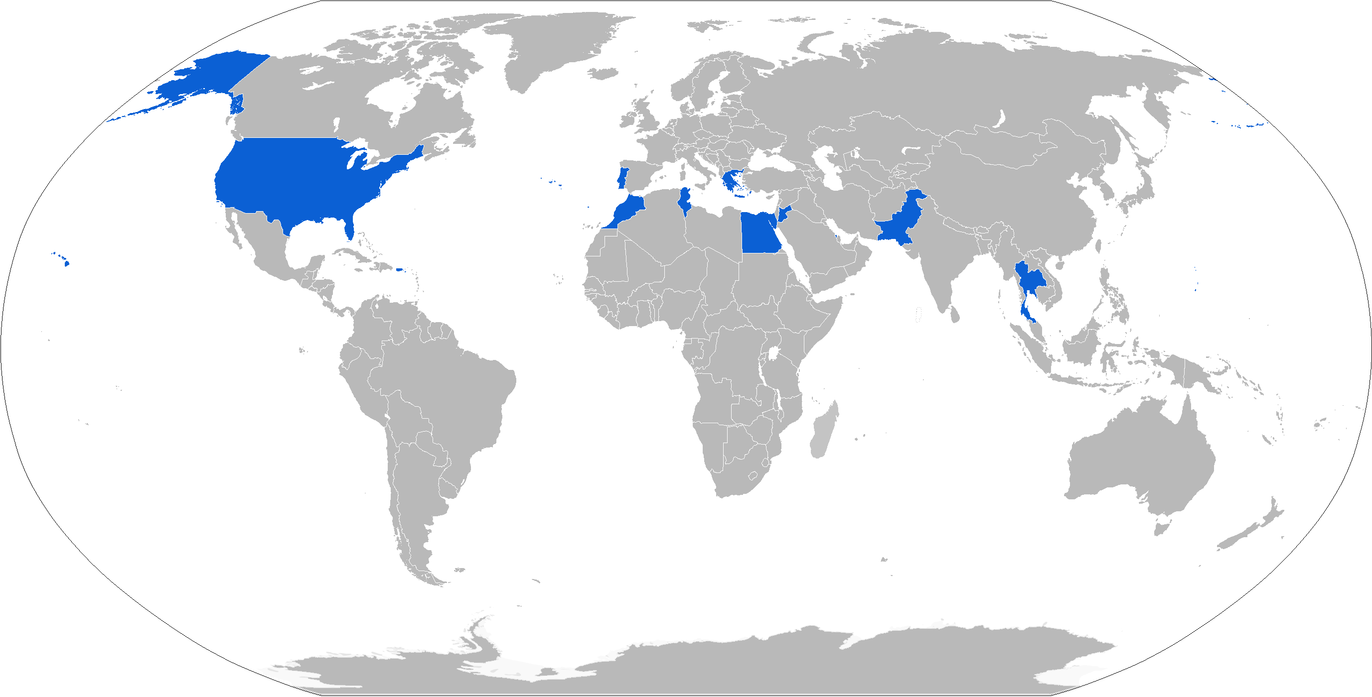 Map with M901 operators in blue